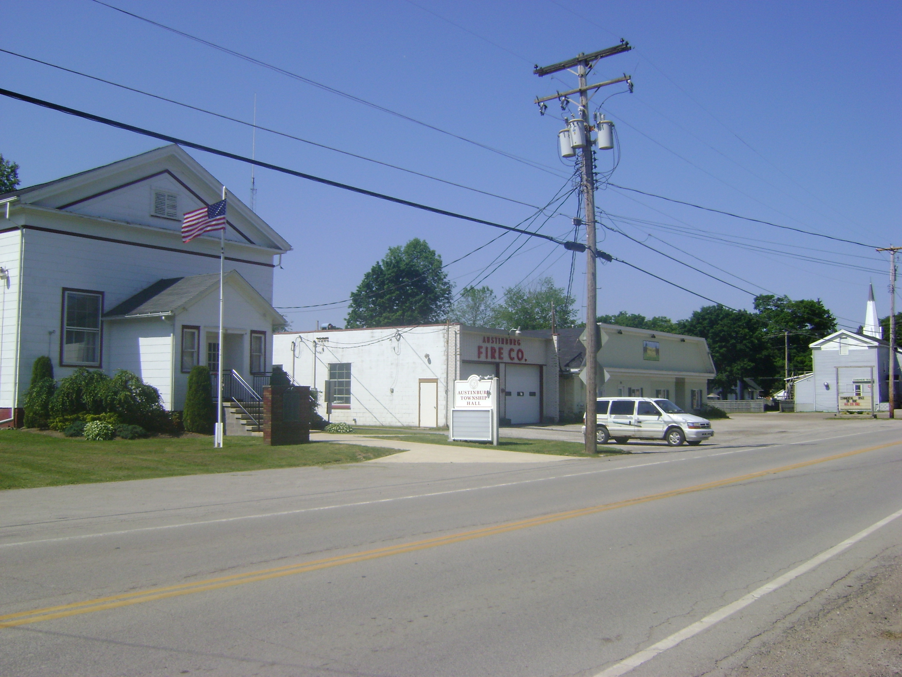 The town hall of Austinburg Township, Ashtabula County, Ohio, is in the foreground. Farther back are the town fire department and the church.